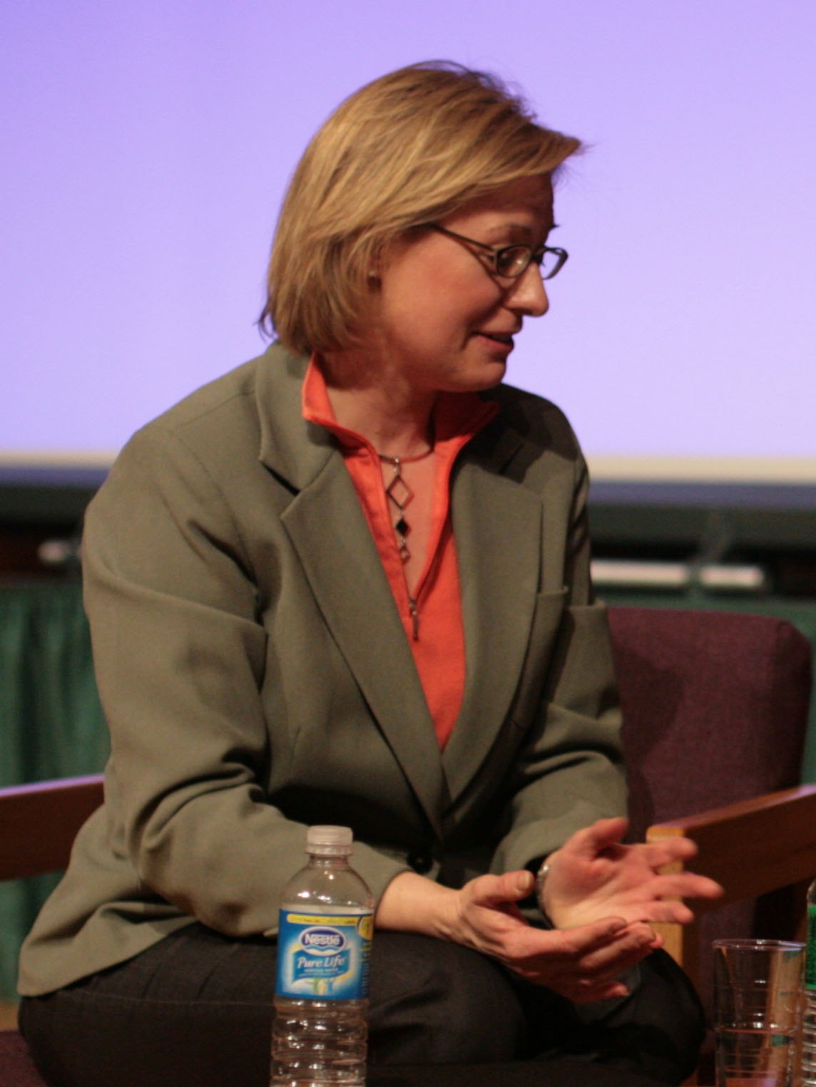 Dad moderates the Veritas Forum - Science, Faith, and Technology session on Living Machines: Can Robots Become Human? Participants: Rodney Brooks, Director - Computer Science and Artificial Intelligence Laboratory, MIT. Rosalind Picard, Founder and Director - Affective Computing Research Group, MIT.